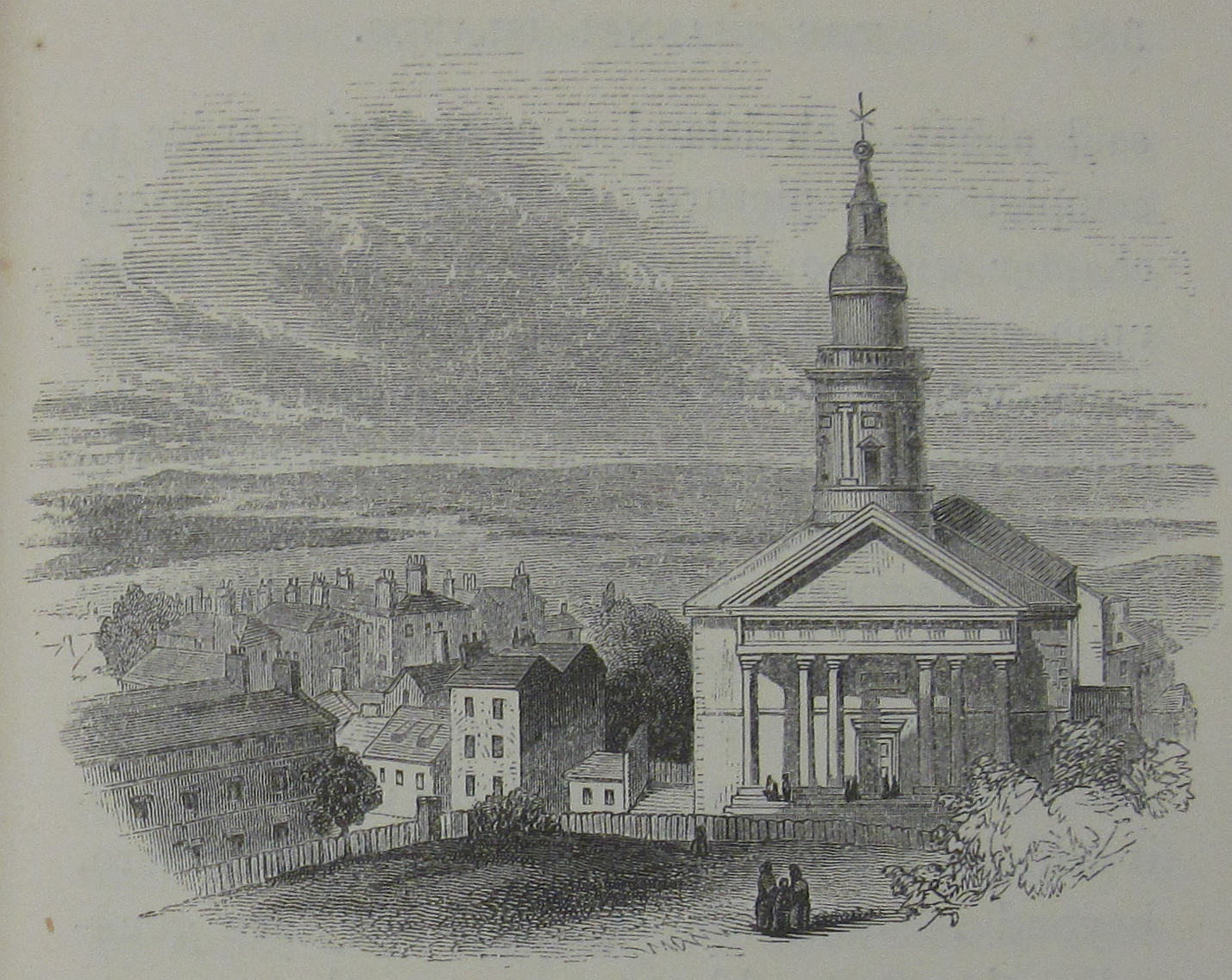 Rambles Among the Channel Islands, by a Naturalist, c.1860, Jean Louis Armand de Quatrefages de Bréau - "St. James' church, St. Peter Port, Guernsey"